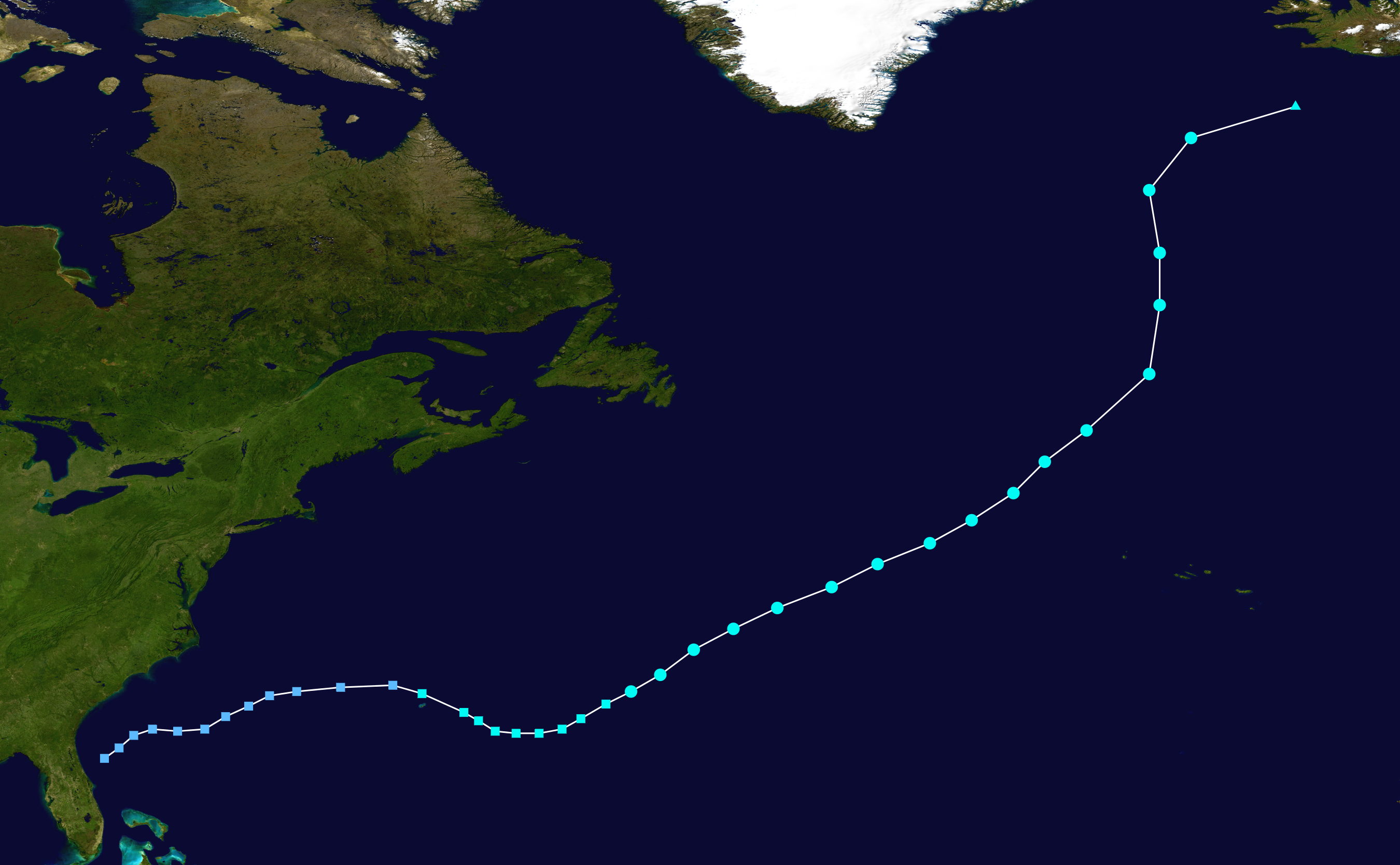 Tropical Storm Hope (1978) track. Uses the color scheme from the Saffir-Simpson Hurricane Scale.